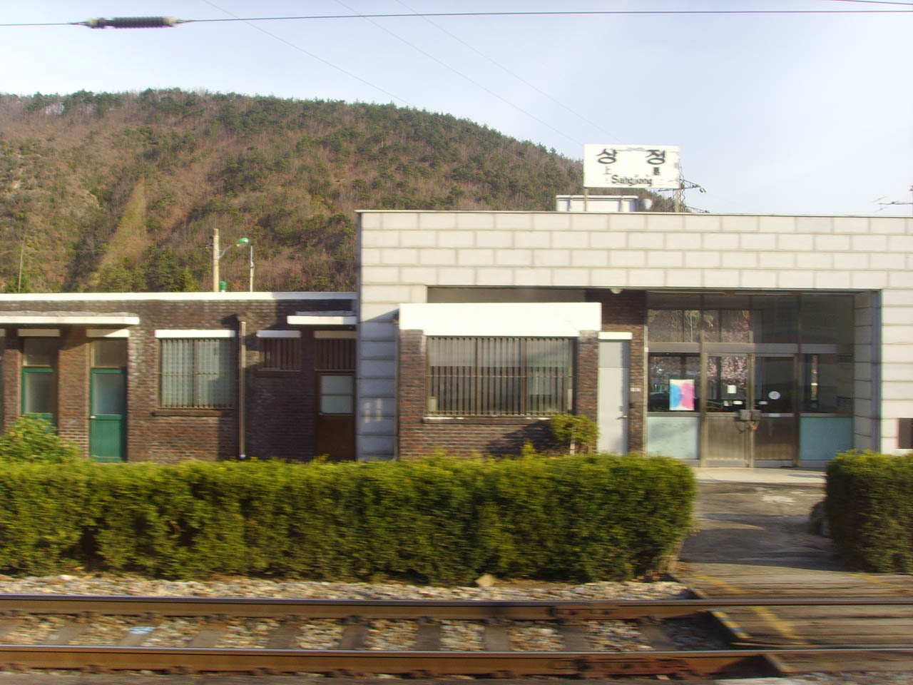 Yeongdong Line Sangjeong Station